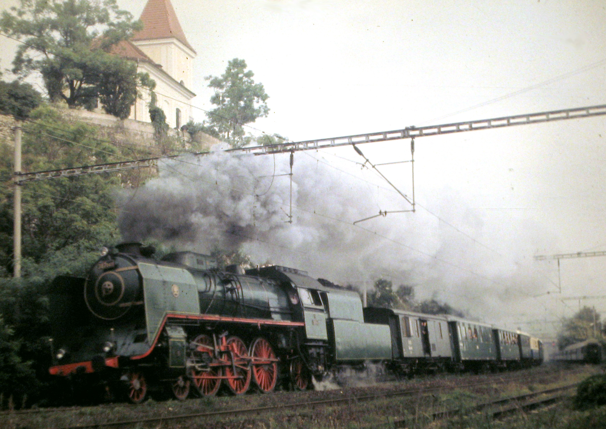 ČSD 387.043 leaving Praha Smíchov - 150th anniversary of the railway in Prague